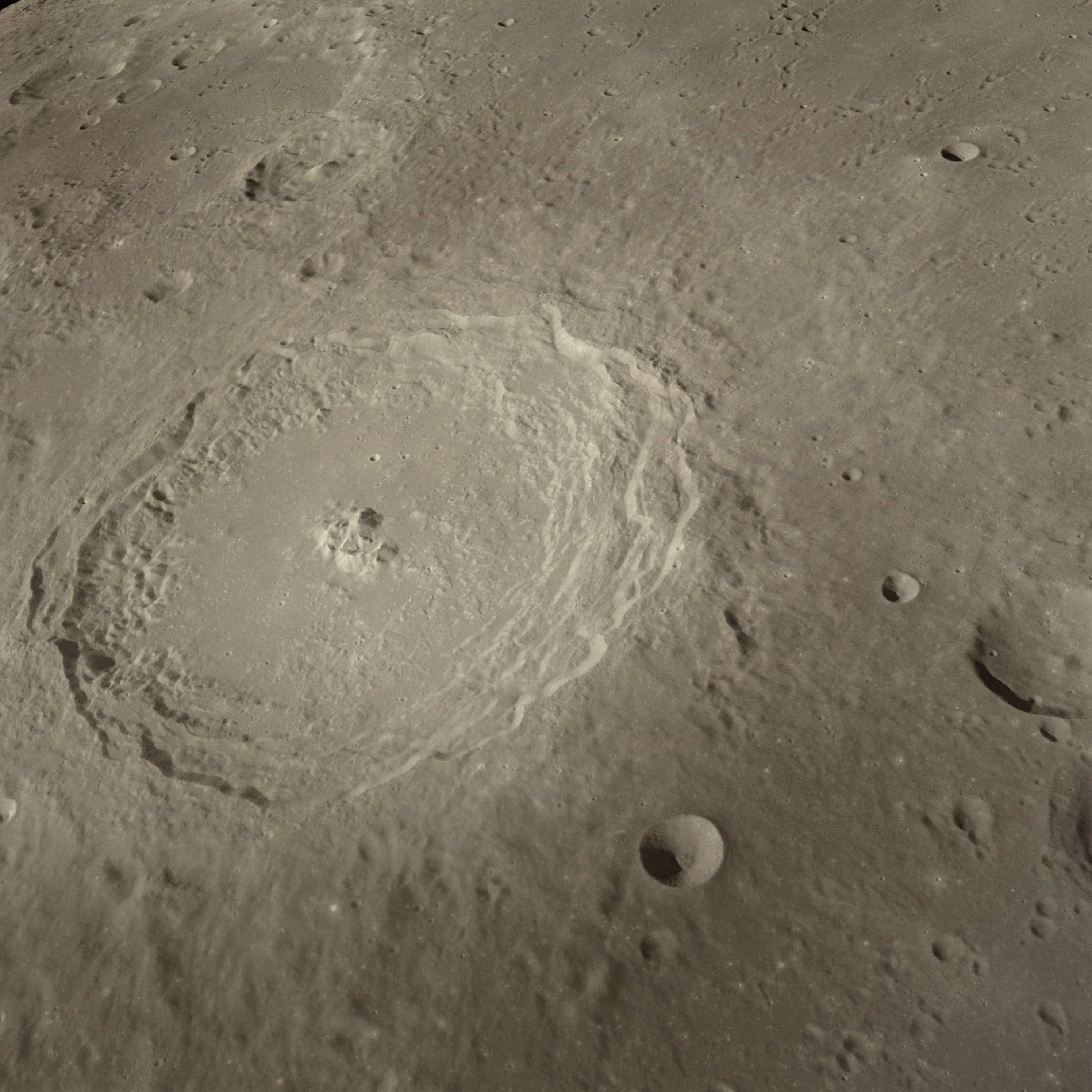 Oblique view of Langrenus crater, on the moon, facing southwest. Lohse and Vendelinus craters are in upper left.